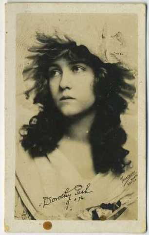 Real Photo Movie Card of Dorothy Gish